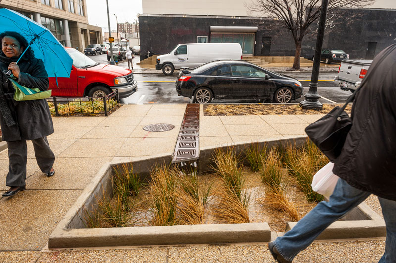 Rain garden, Washington, DC. USEPA Photo by Eric Vance. Public domain image